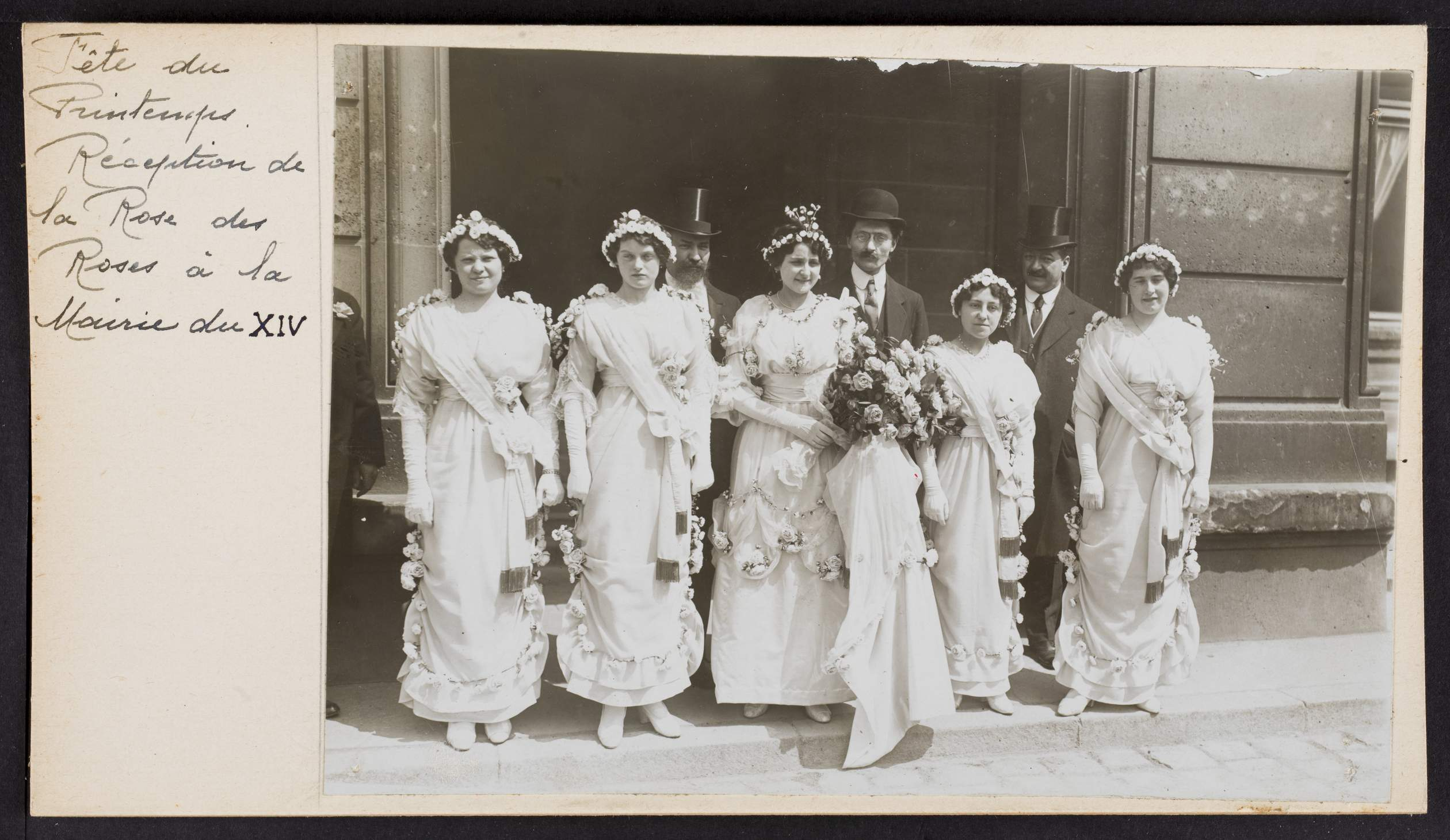 Fête du printemps. Réception de la Rose des Roses à la mairie du XIVème arrondissement de Paris.